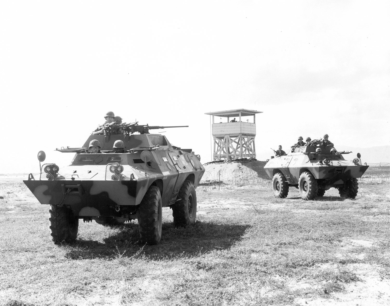 Members of the 31st Security Police Squadron train with two V-100 Commando Cars at Tuy Hoa Air Base, South Vietnam. The commando cars were used to supplement base defense capabilities by providing an element of mobility.